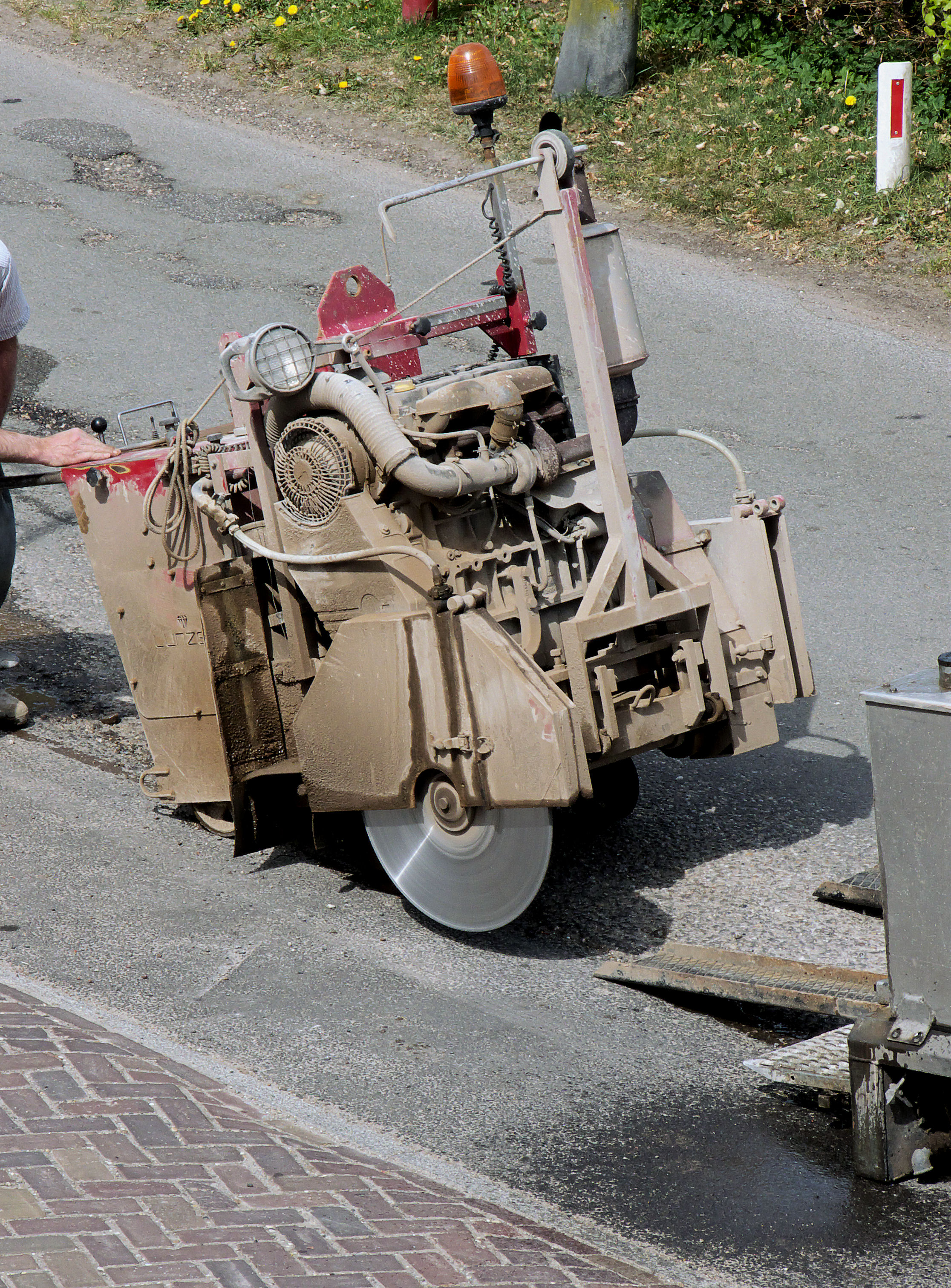 Diamond circular saw for stonecutting